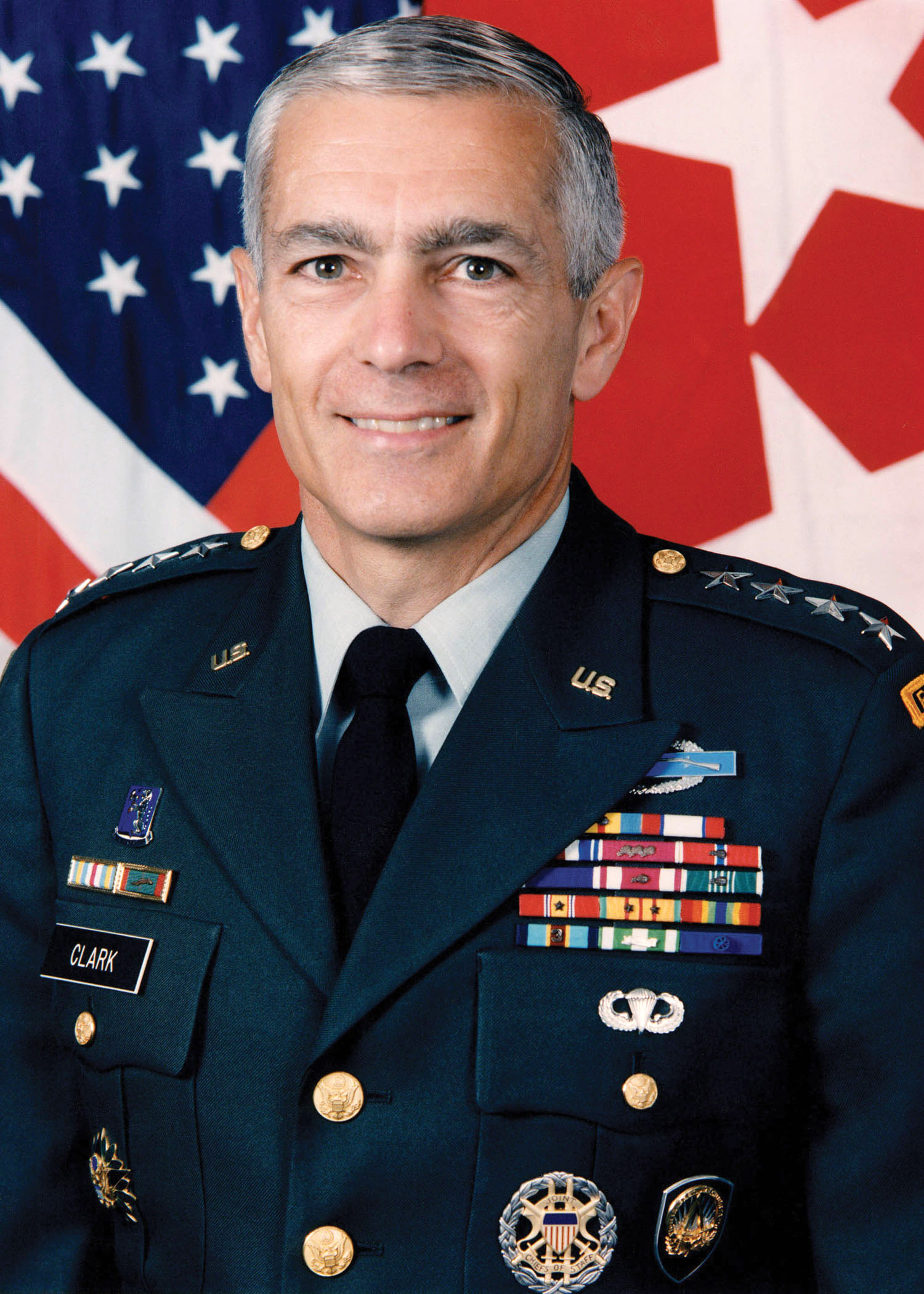 Military photo portrait of Wesley Clark, former U.S. general and presidential candidate.